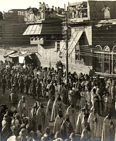 Photograph of the Celebration of the Christian Catholic feast of Corpus Christi in Baghdad in the 1920's. The Patriarch, Bishops, and Priests of the Chaldeans (the most numerous of Iraq's Catholics), the Syrian (Syriac) Catholic and Armenian Catholic Bishops are seen with their priests, deacons and students marching through the streets of Baghdad close to the old Christian Quarter of Aqd al-Nasara.